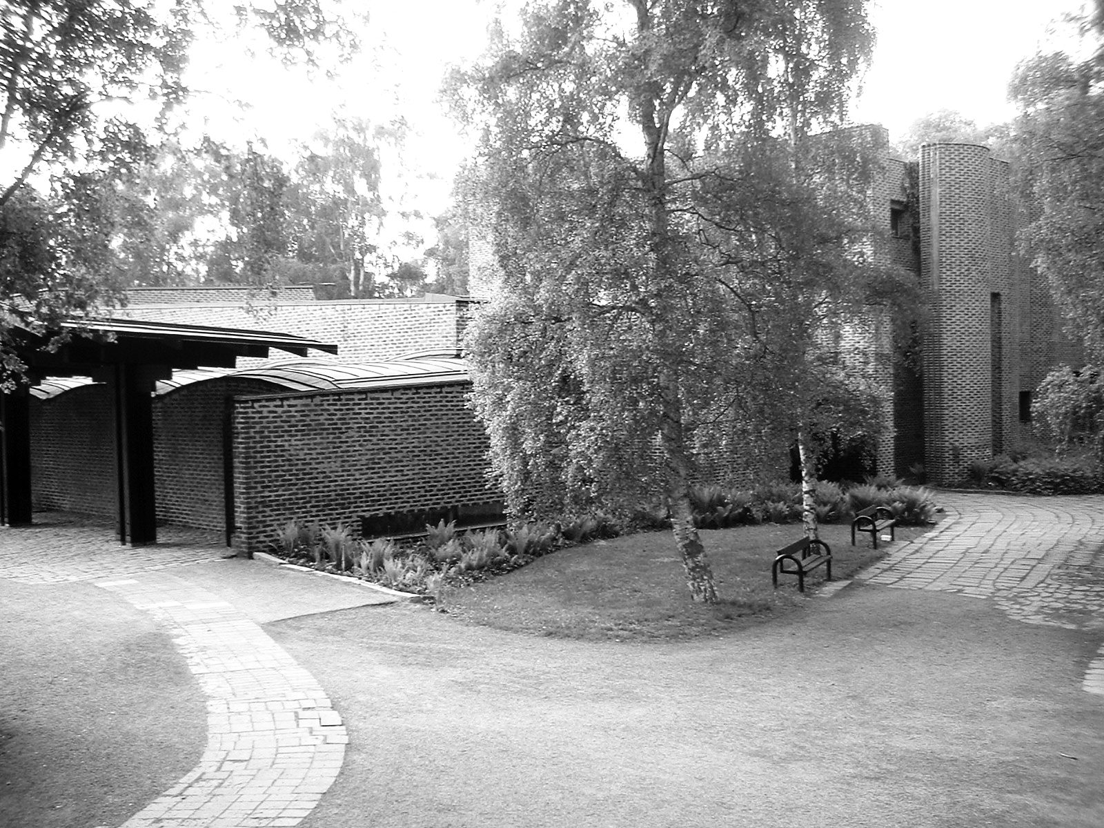 Church of St Mark by Sigurd Lewerentz.